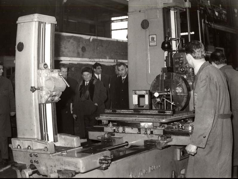 Factory Ivo Lola Ribar in Železnik